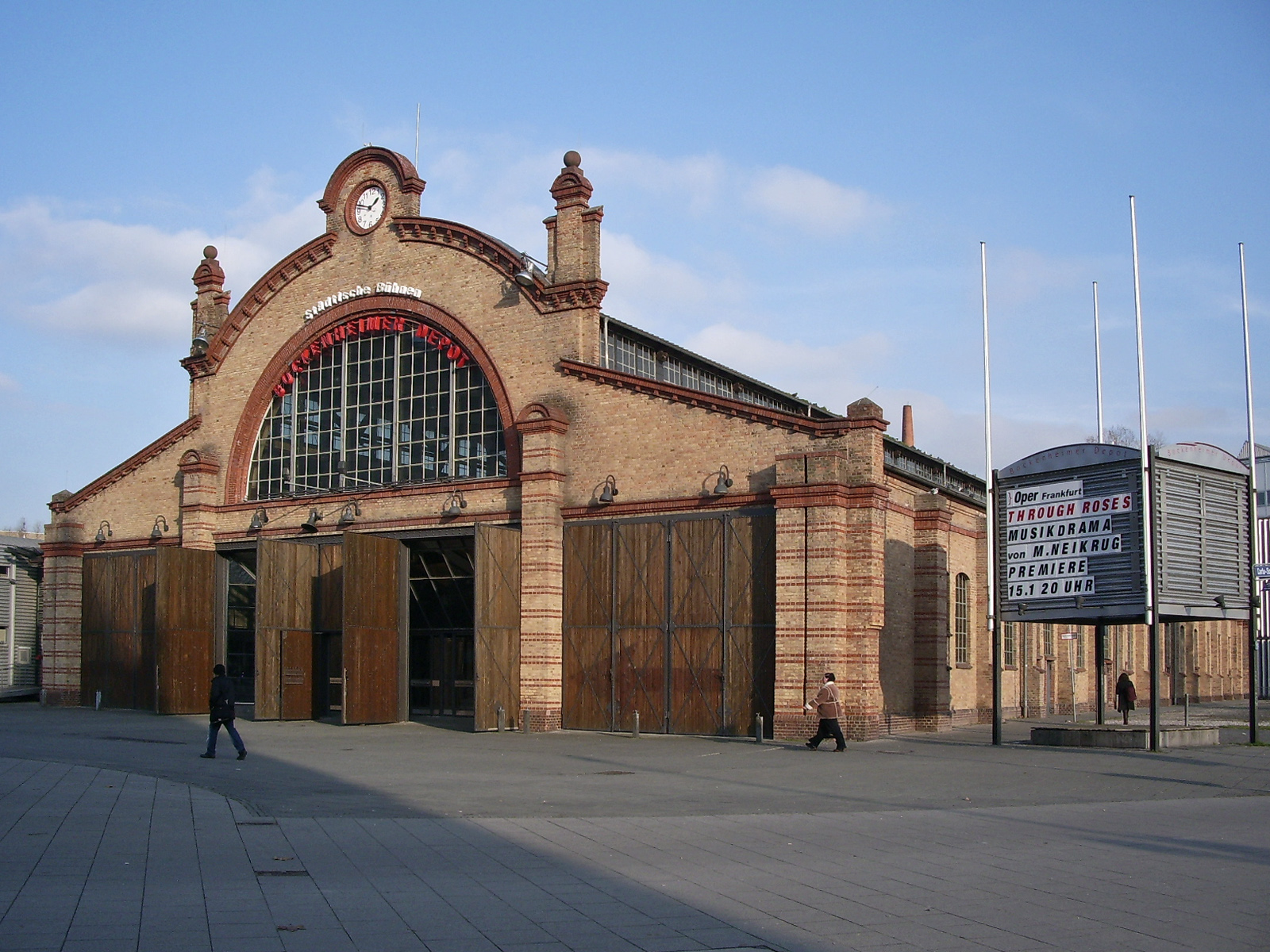 Former tramway depot at Bockenheim (Frankfurt am Main, Germany), now used as Theatre. Picture by myself, December 21. 2005. Published under GNU-FDL.